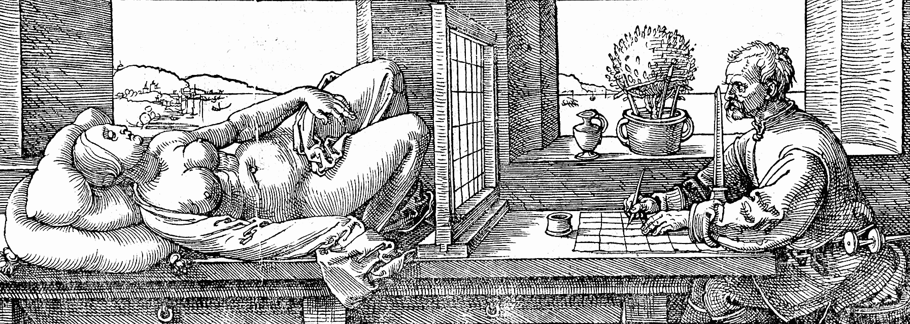 This is an enhanced version of a public domain image by Albrecht Dürer that shows the invention of ray tracing.